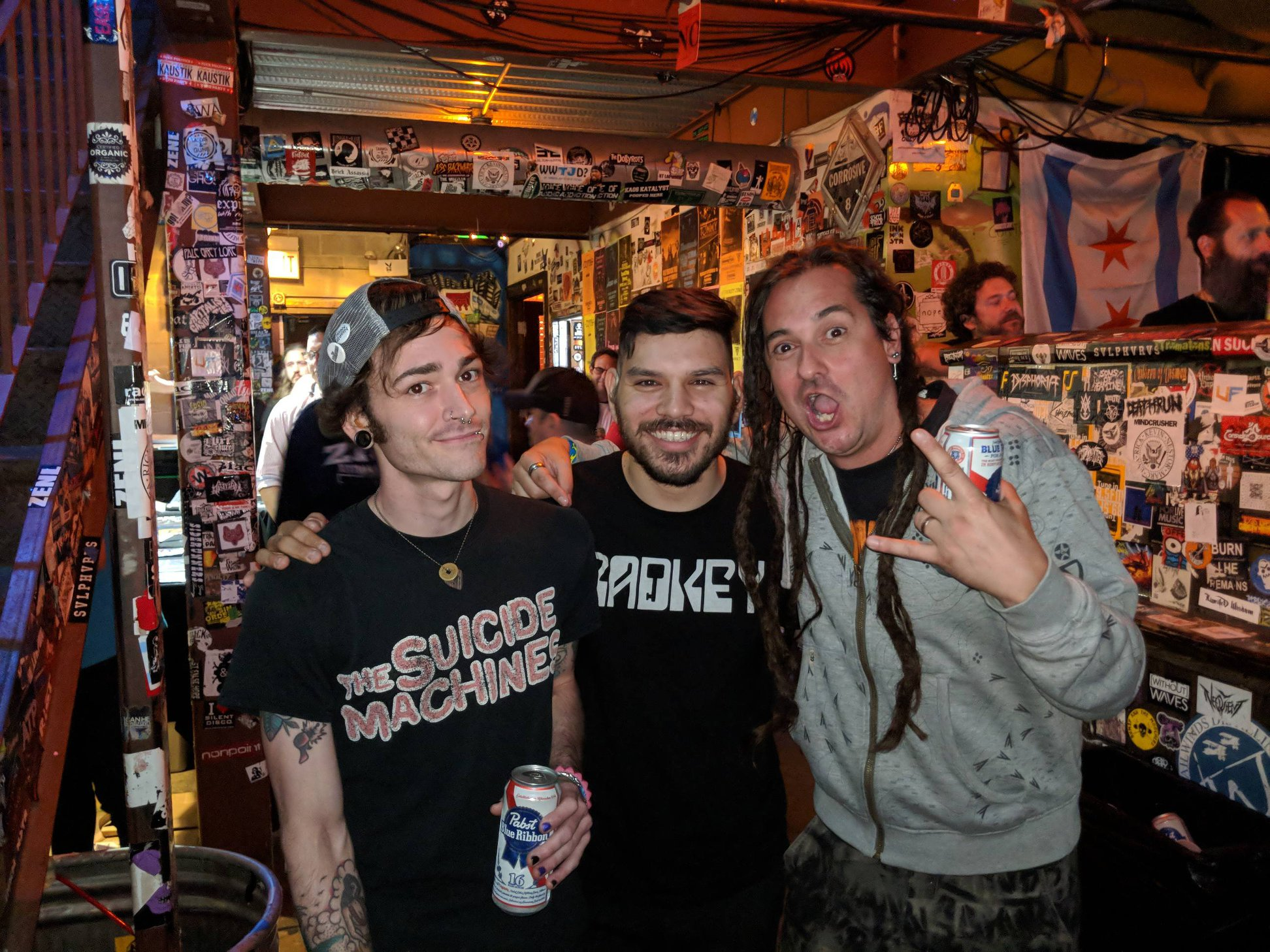 First REHASHER show in Chicago